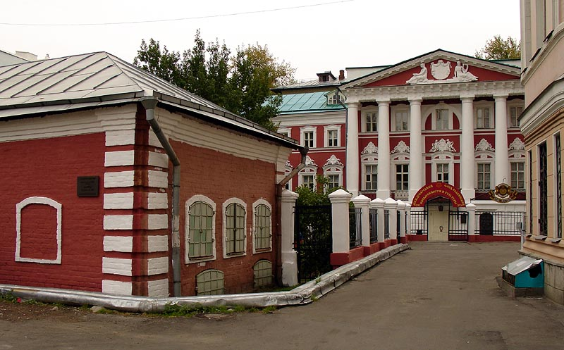 Palace in Chernigovsky Lane, Zamoskvorechye, Moscow. Small chambers (left) date back to early 17th century